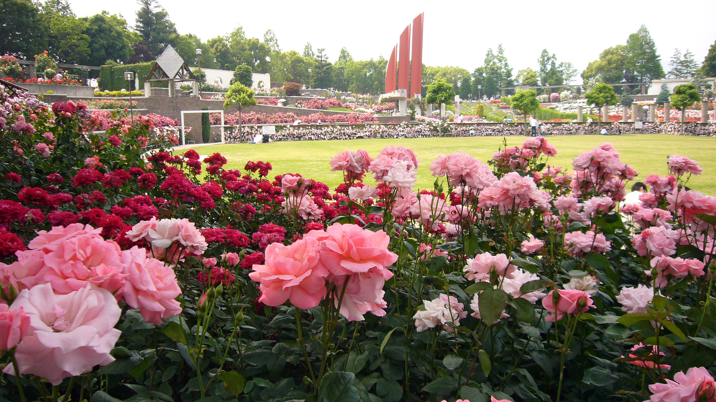 Aramaki rose park in Itami, Hyogo prefecture, Japan